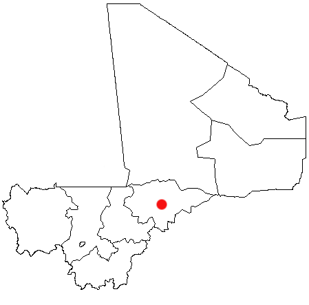 Bandiagara, Mali Location Map.